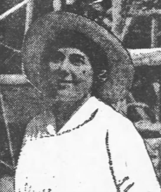 Alys McKey-Bryant, one of the Early Birds of Aviation, is interviewed before participating in the 1914 Seattle Potlatch airshow.